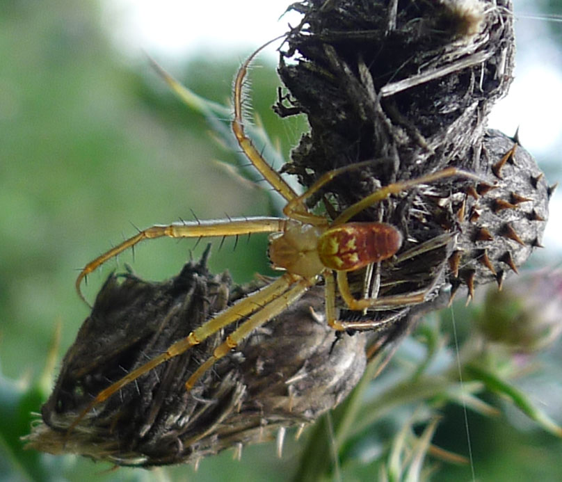 SO589371. Haugh Wood, Herefordshire